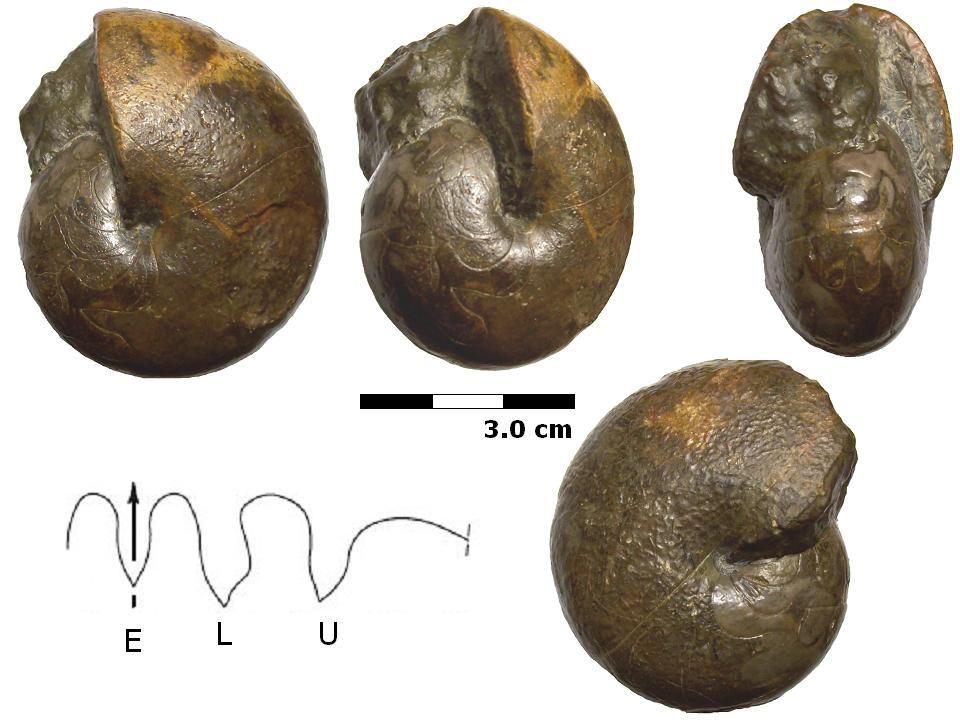 Sporadoceras orbiculare (Munster), from the Late Devonian (Famennian) of Morocco. The sutural pattern is reported (E = external lobe; L = Lateral lobe; U = umbilical lobe).